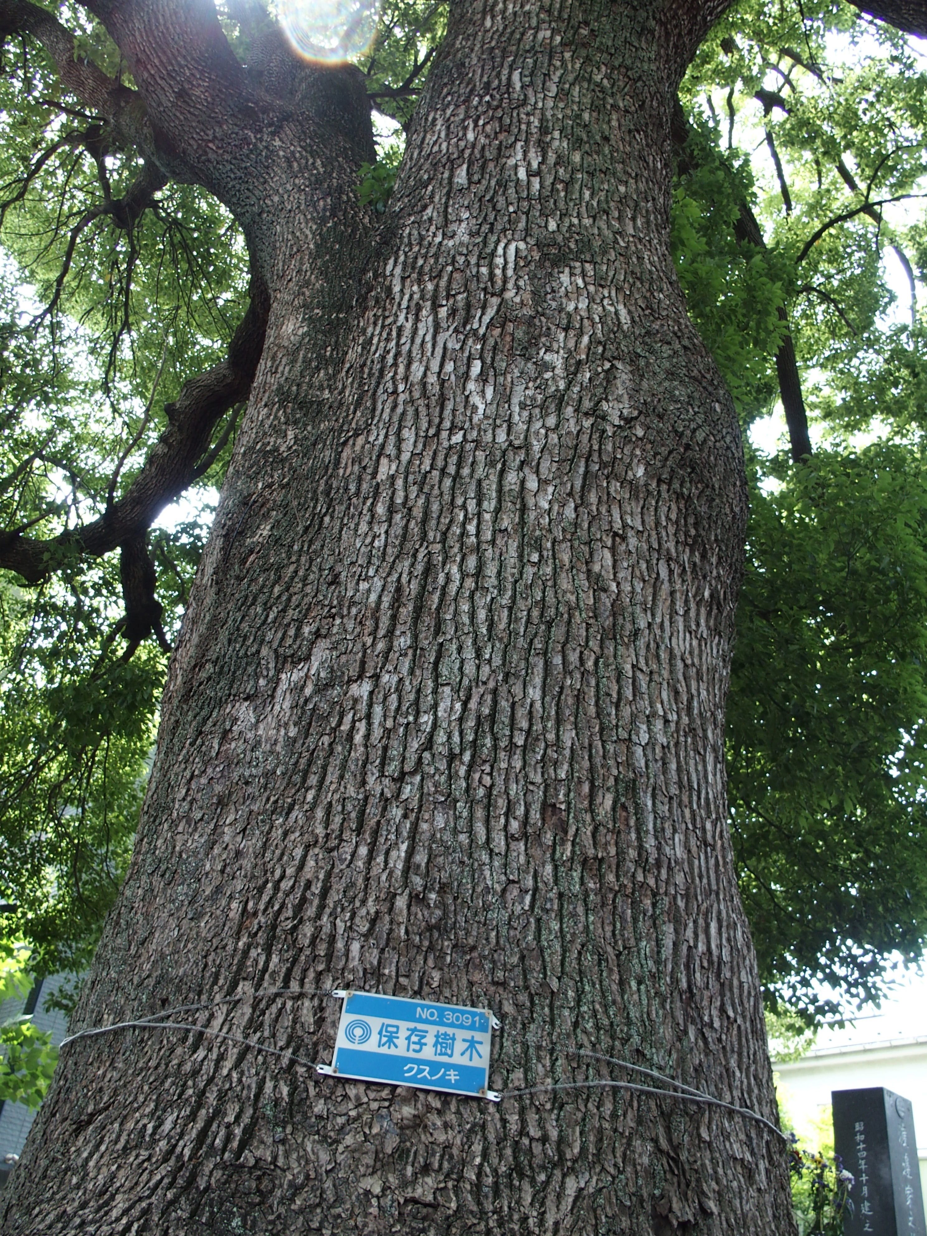 Old Tree in the Komyo-ji Temple